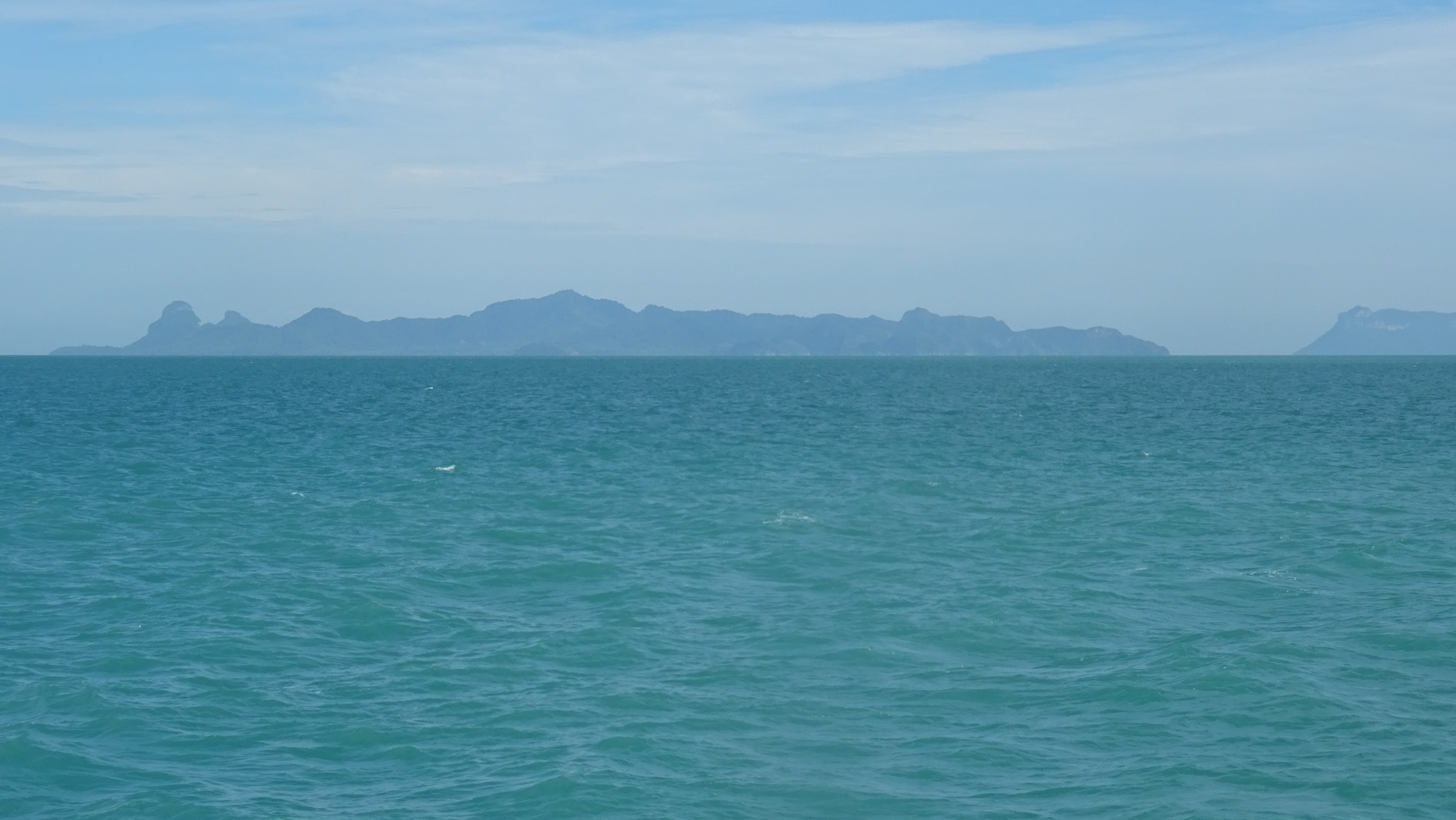 View of Ko Phaluai with Ko Wua Ta Lap on the right.